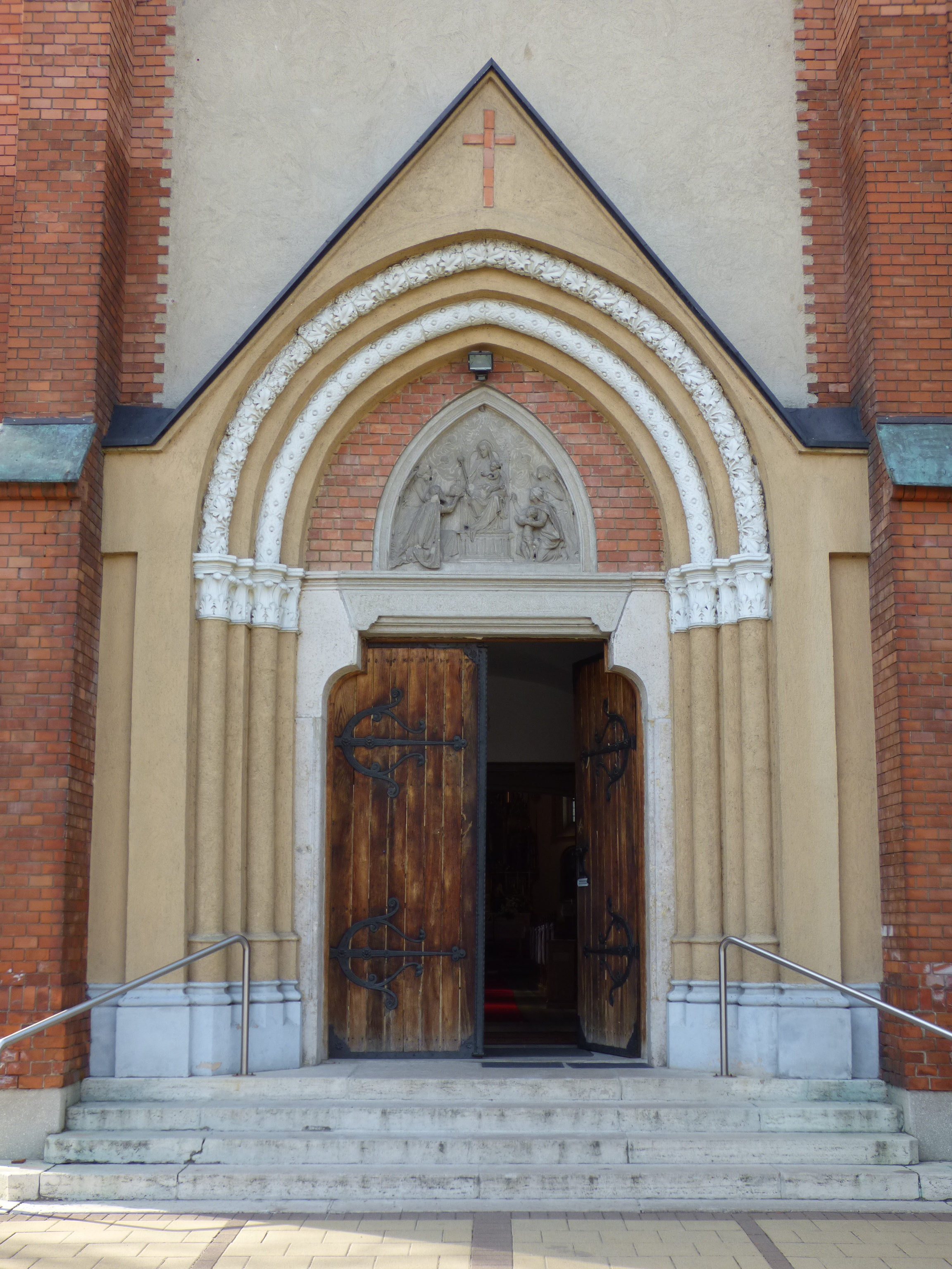 Dunaharaszti, a templom bejárata